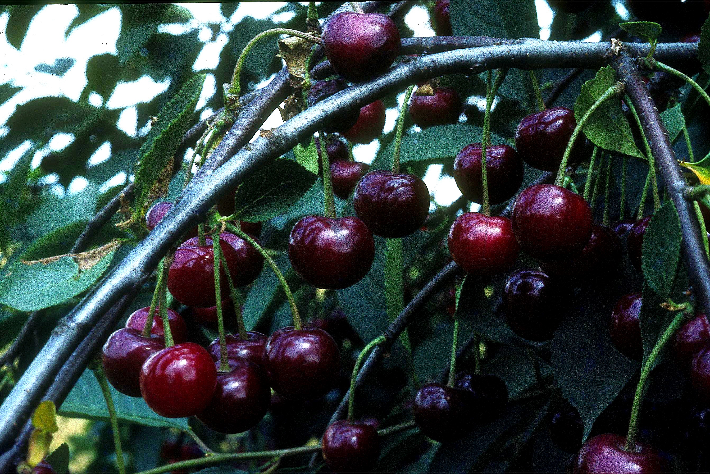 Sour Cherry